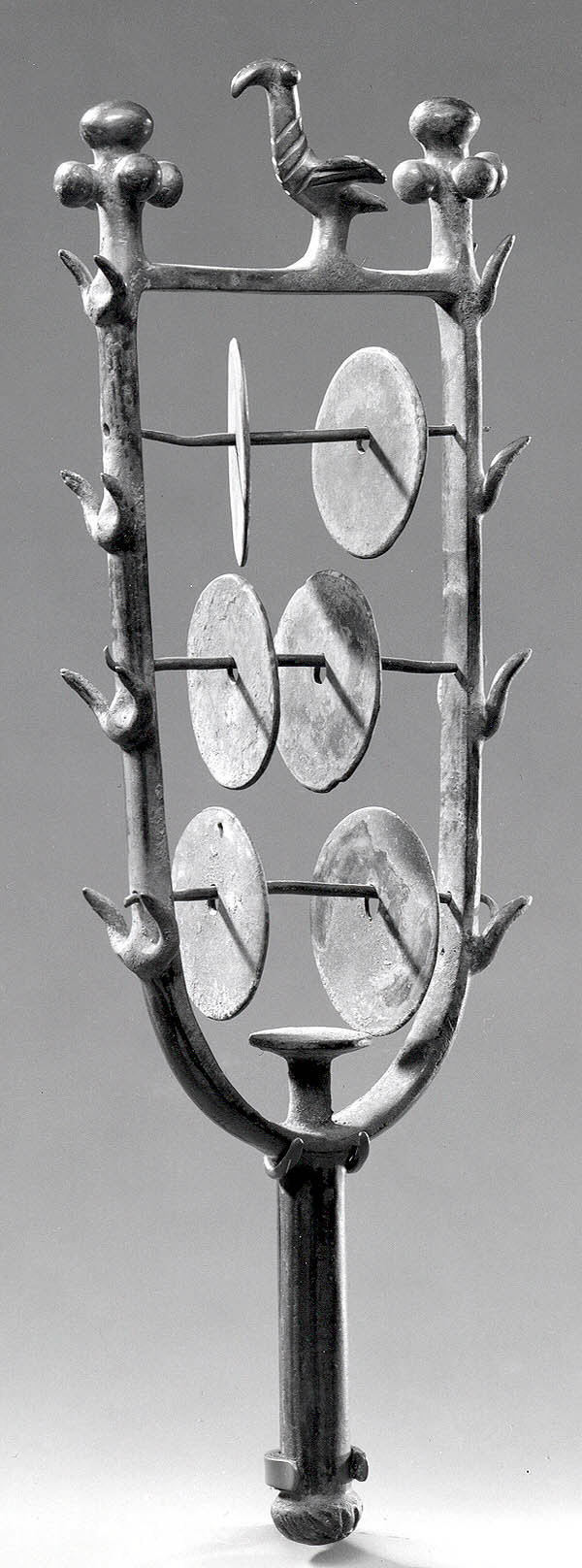 Hattian; Sistrum; Metalwork-Implements